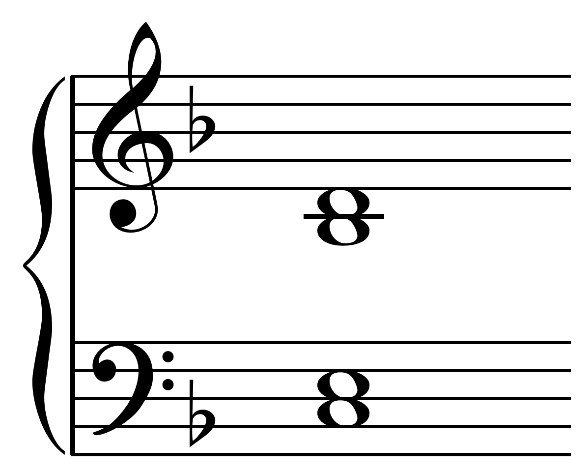 Dominant ninth chord in four-part writing. Created by Hyacinth (talk) 01:58, 1 May 2010 using Sibelius 5.